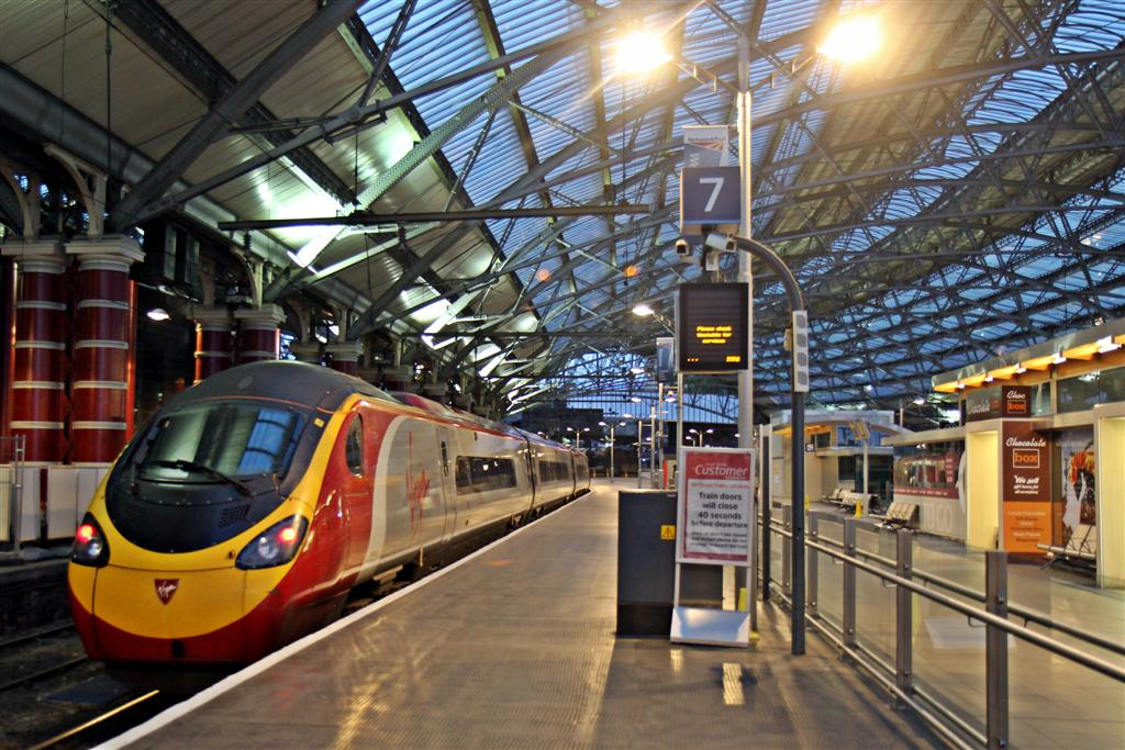 Platform 7, Liverpool Lime Street.